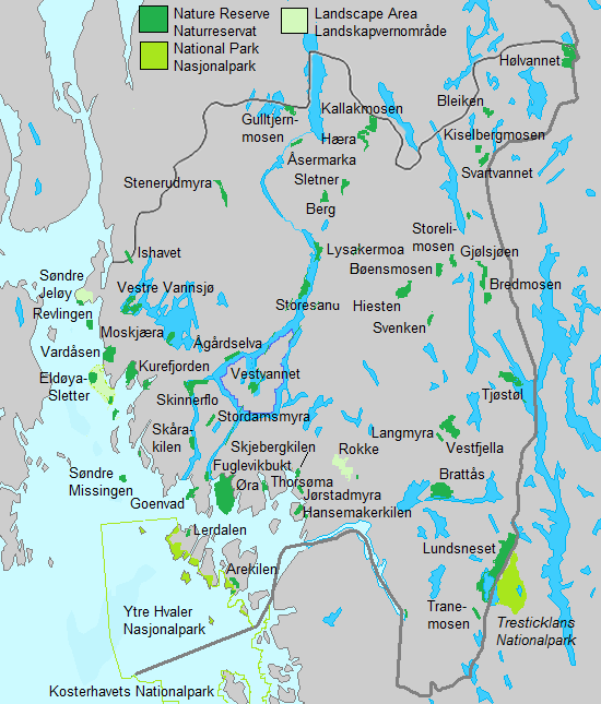 Map of protected nature areas of Östfold county, Norway. Based on a single outline map.